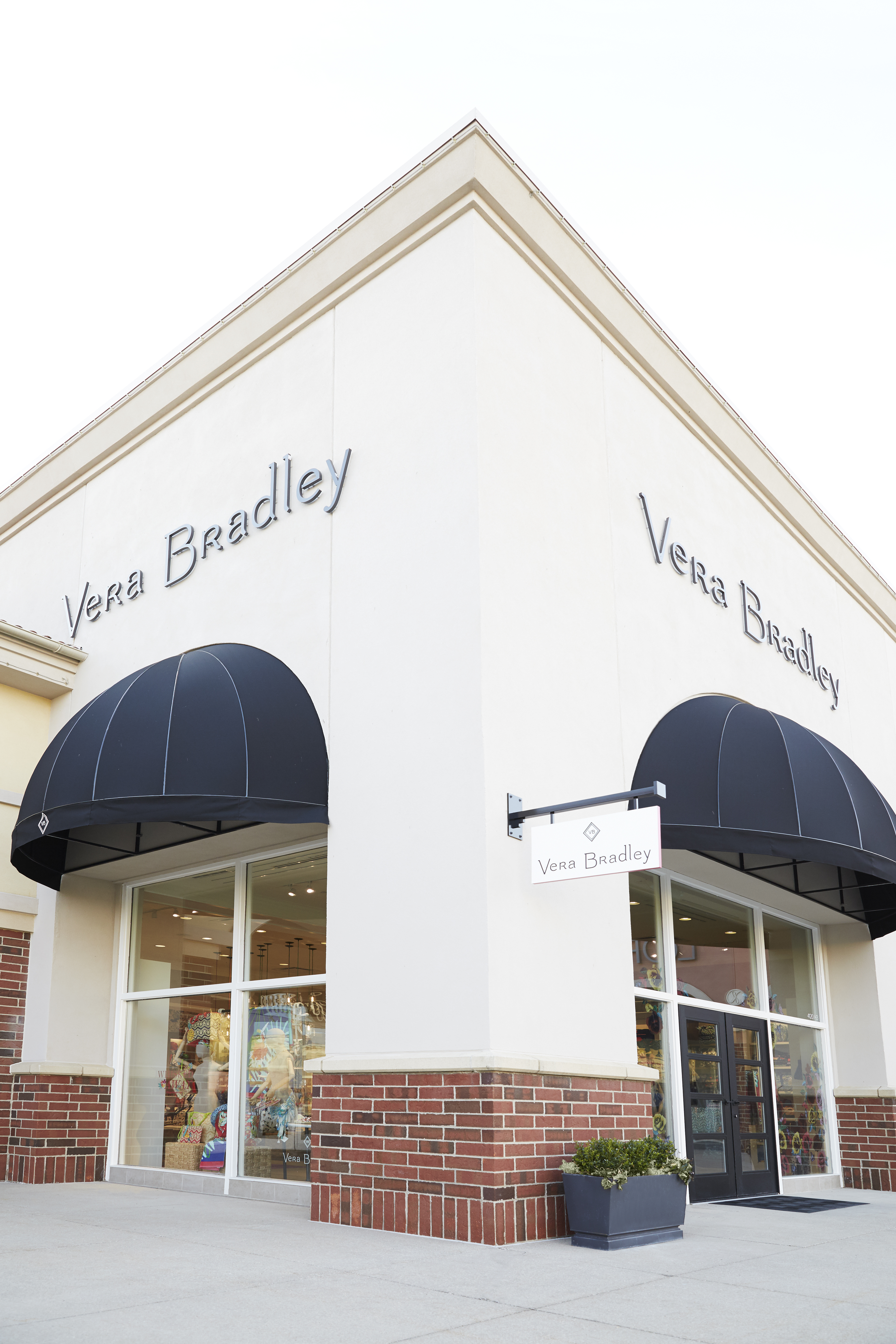 A Vera Bradley Full Line store at Jefferson Pointe in the Company's hometown of Fort Wayne, Indiana.